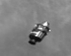 Minotaur-1 upper stage imaged by the XSS 11 satellite